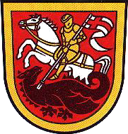 Coat of arms of Burgwalde